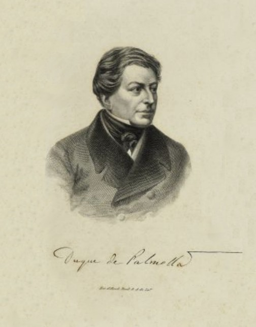 The 1.st Duke of Palmela (1781-1850), a Portuguese politician and military officer.